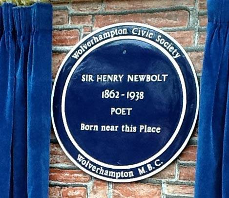 Commemorative Plaque for Henry Newbolt Wolverhampton